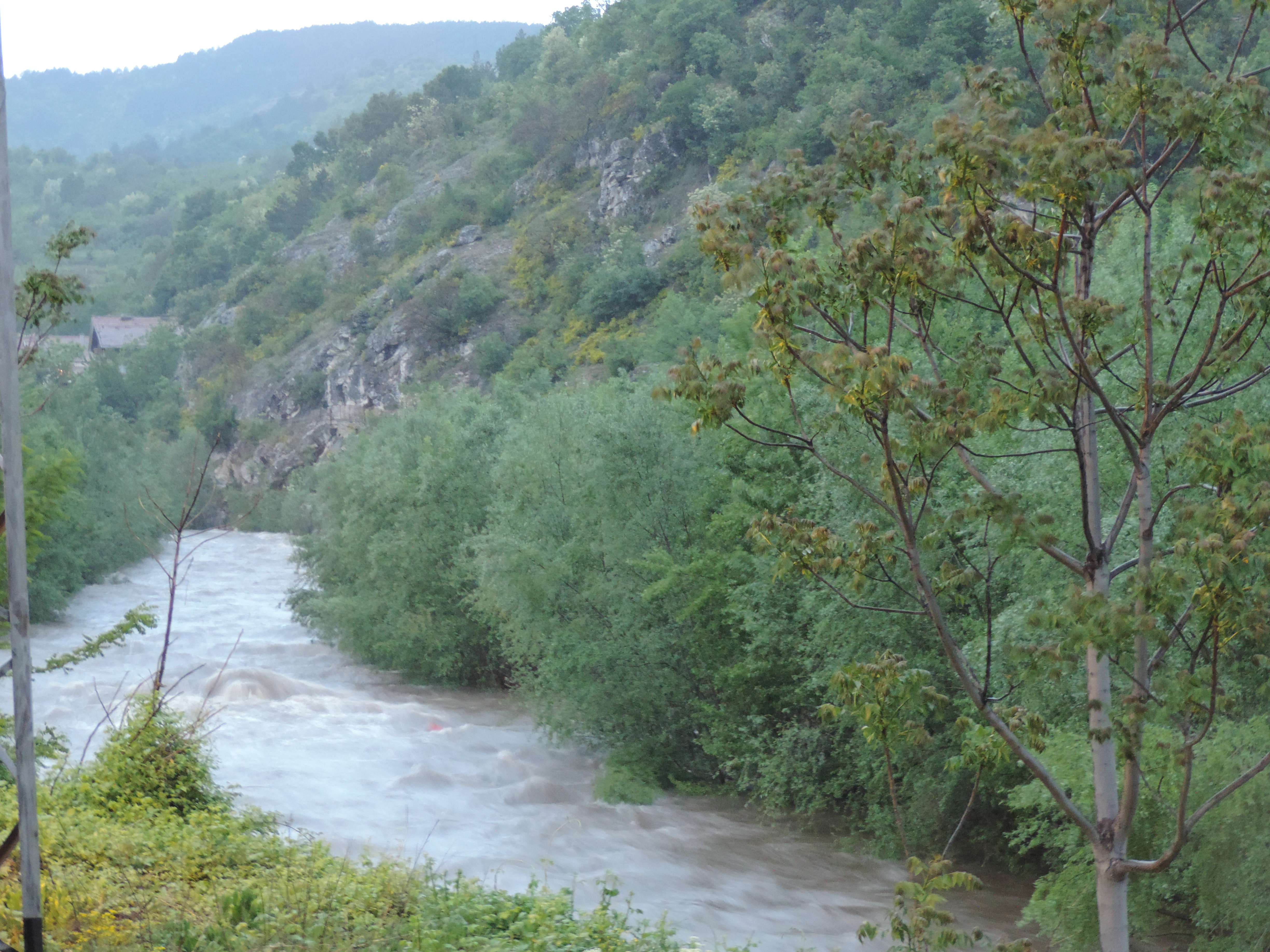 Momina klisura, Maritsa river, Belovo, Bulgaria